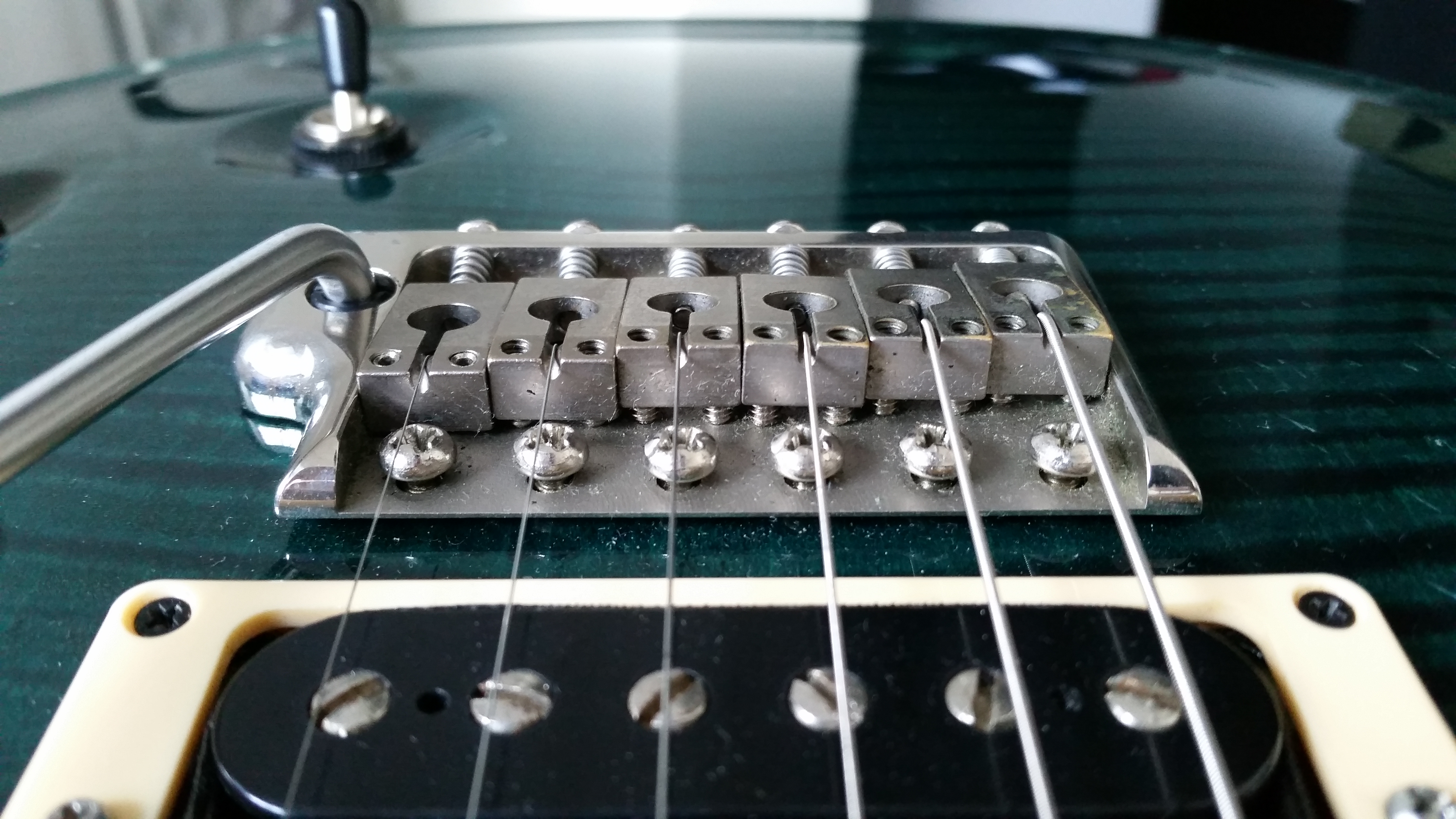 Tremolo of a PRS Custom 24 teal black, 2004.